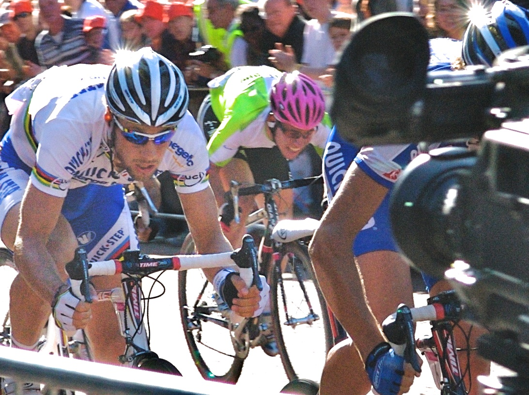 Tom Boonen looking world-championly, Roger Hammond on his wheel. (Note added in 2011 - that's a younger Mark Cavendish sporting a fantastically clashing green points jersey and pink helmet in the background)